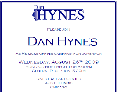 Dan Hynes gubernatorial kickoff invite